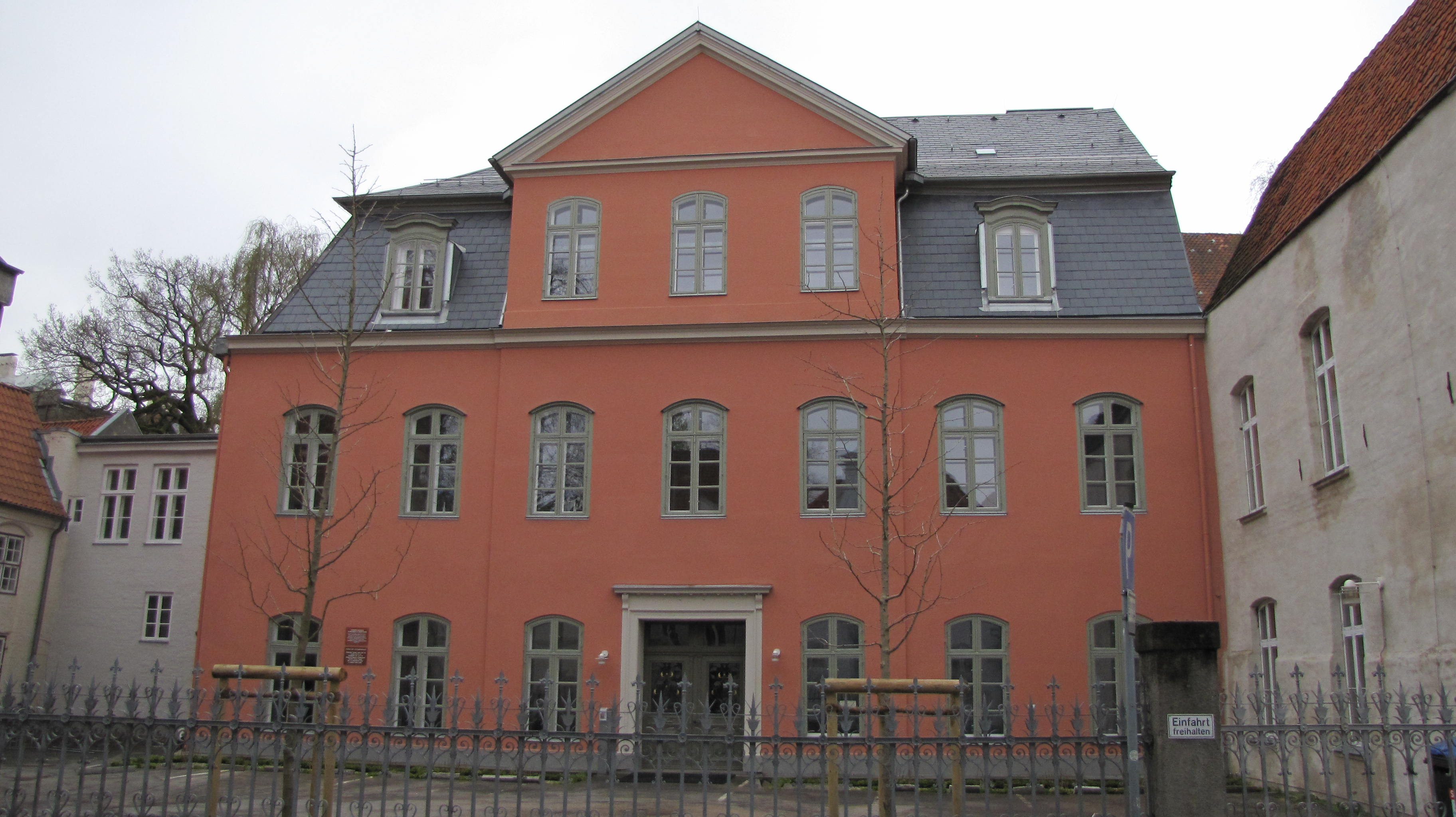 Palais Brömserhof in Lübeck with newly restored facade